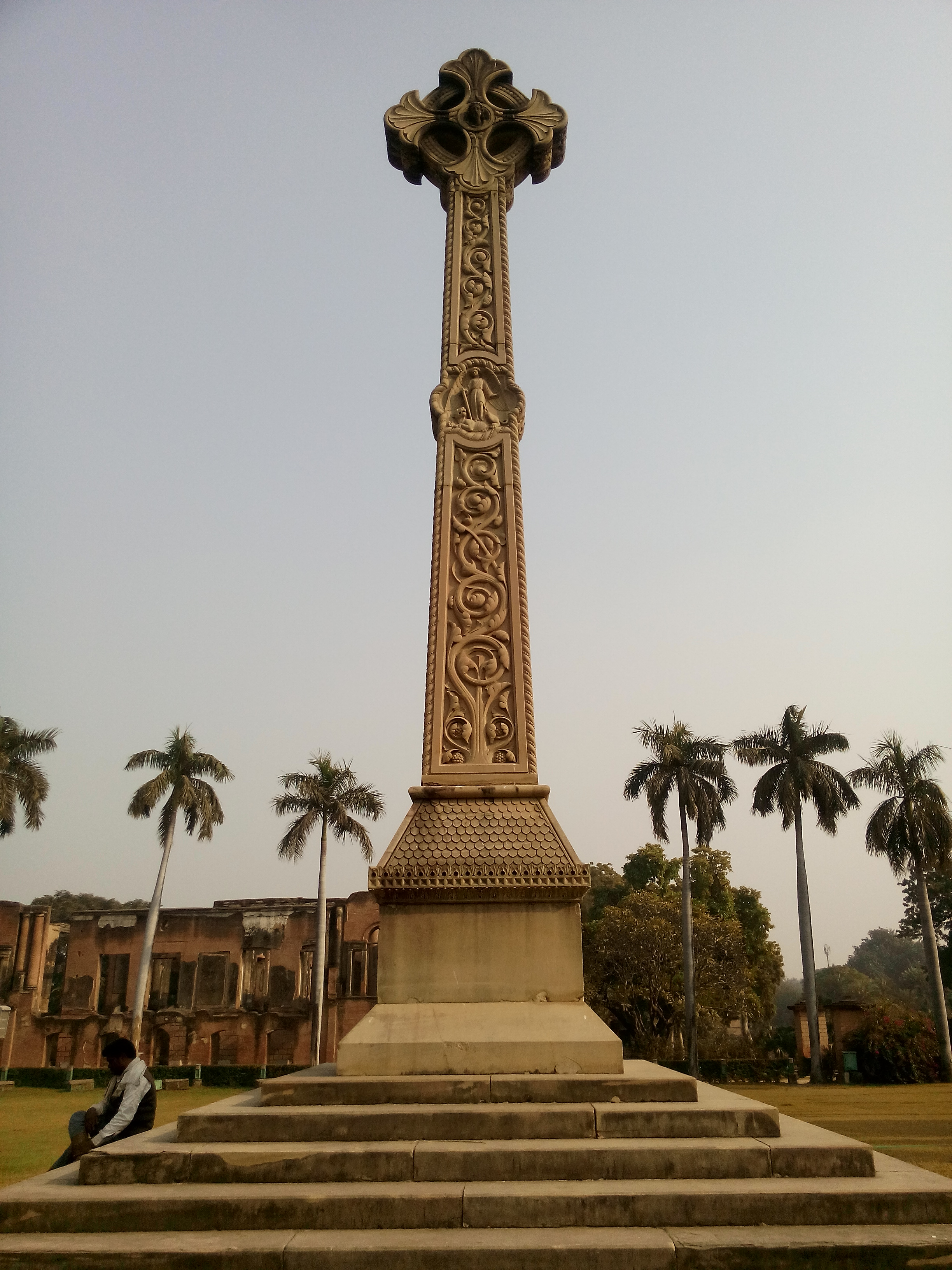 The High Cross or Standing cross established in Memory of Sir Henry Lawrence